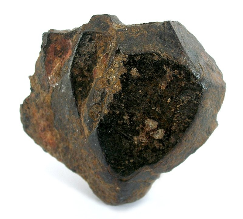 Ilmenite Locality: Miass (Miask), Ilmen Mts, Chelyabinsk Oblast', Southern Urals, Urals Region, Russia (Locality at ) Size: 4.5 x 4.3 x 1.5 cm. An outstanding tabular group of large parallel-growth crystals, with vitreous and attractive chocolate lustre. Few documented specimens from this important classic old locality survive today. This is as good as any I have seen, and of display quality and full miniature size, to boot. Ex. American Museum of Natural History, Clarence Bement collection, donated in 1910.